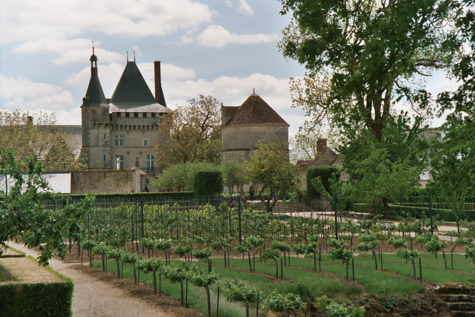 Gardens of the Castle of Talcy (Loir et Cher)